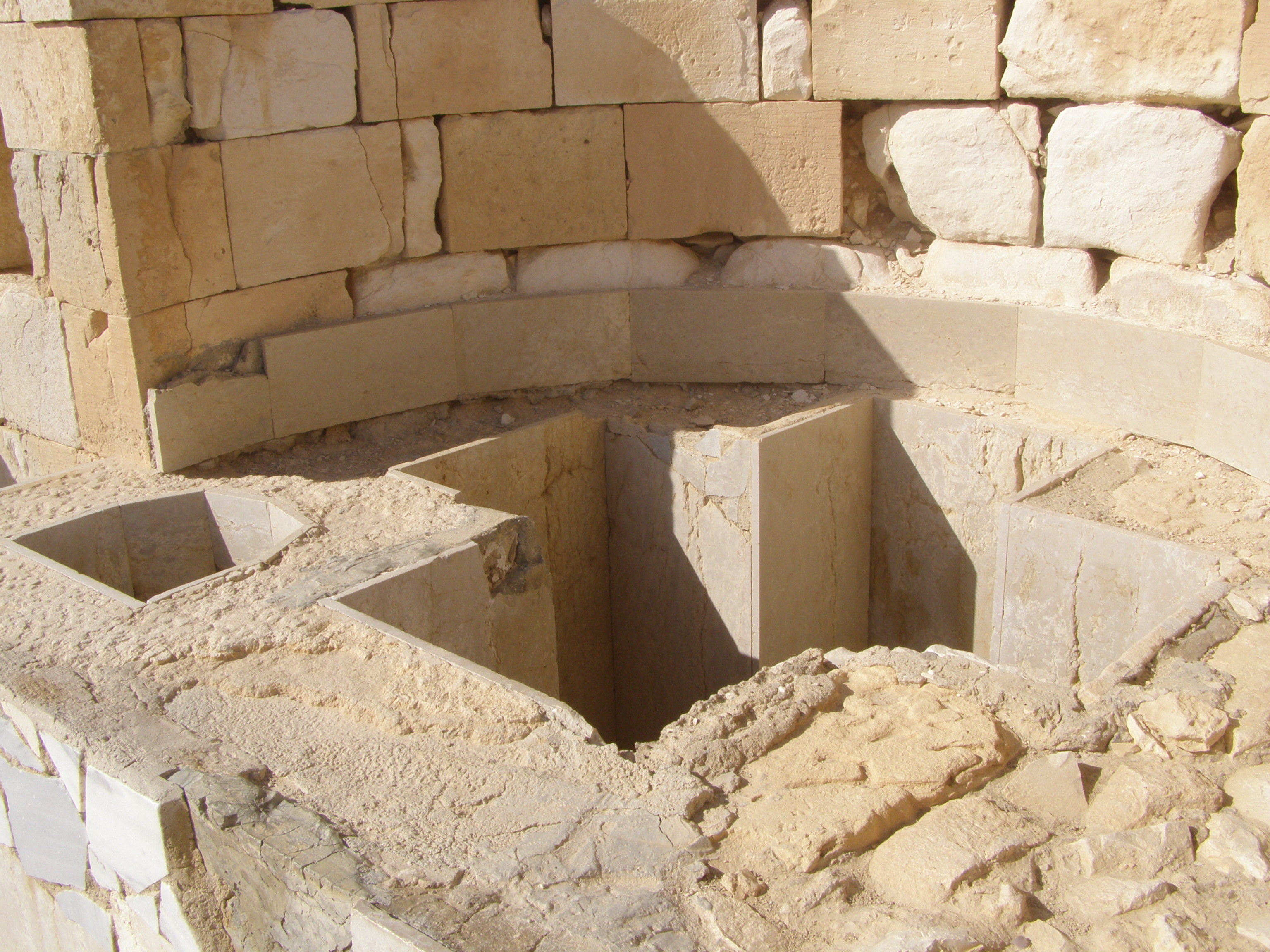 Avdat